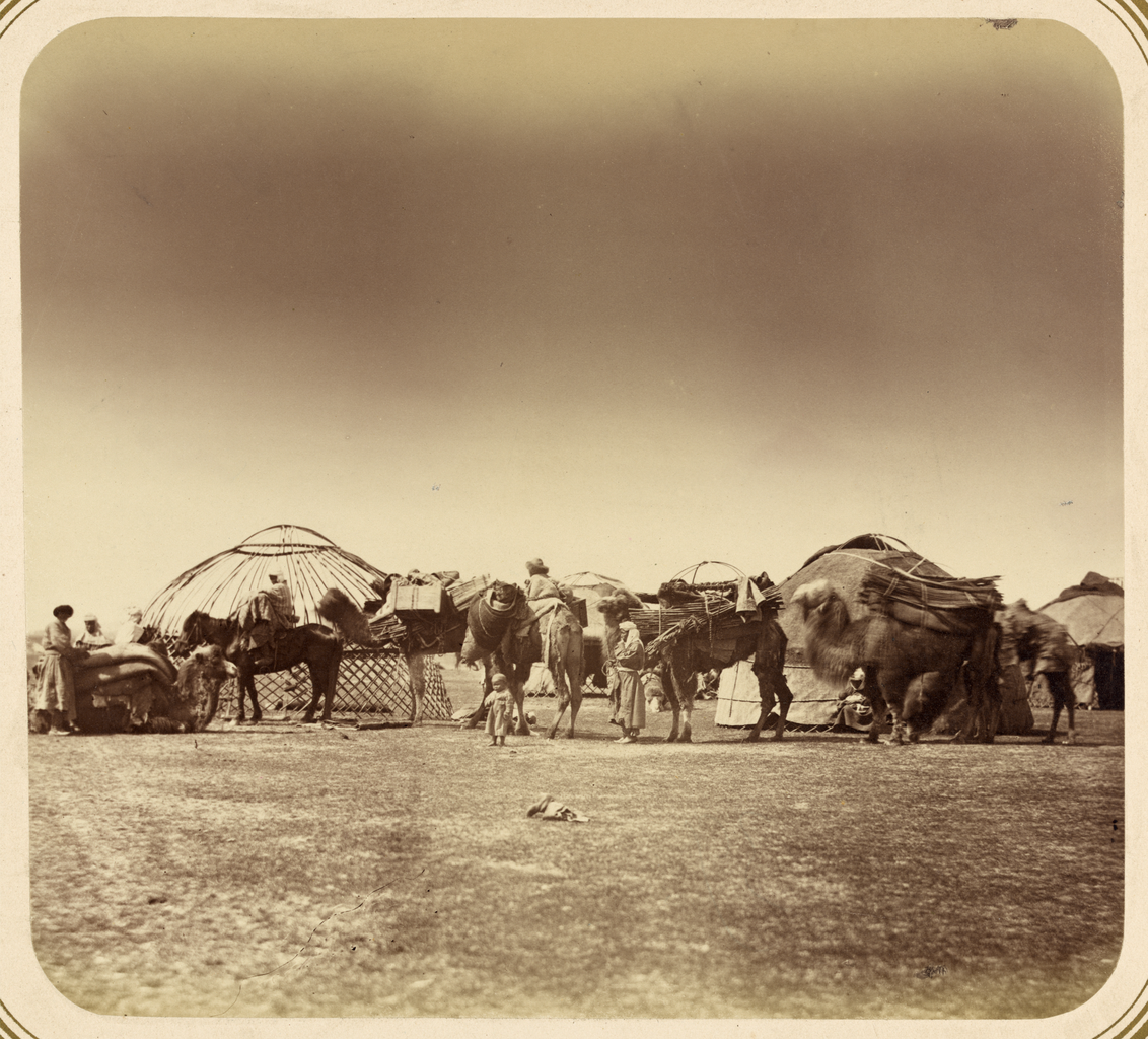 This photograph is from the ethnographical part of Turkestan Album, a comprehensive visual survey of Central Asia undertaken after imperial Russia assumed control of the region in the 1860s. Commissioned by General Konstantin Petrovich von Kaufman (1818–82), the first governor-general of Russian Turkestan, the album is in four parts spanning six volumes: “Archaeological Part” (two volumes); “Ethnographic Part” (two volumes); “Trades Part” (one volume); and “Historical Part” (one volume). The principal compiler was Russian Orientalist Aleksandr L. Kun, who was assisted by Nikolai V. Bogaevskii. The album contains some 1,200 photographs, along with architectural plans, watercolor drawings, and maps. The “Ethnographic Part” includes 491 individual photographs on 163 plates. The photographs show individuals representing the different peoples of the region (Plates 1–33); daily life and rituals (Plates 34–91); and views of villages and cities, street vendors, and commercial activities (Plates 92–163). Ethnographic photographs; Kyrgyz; Nomads; Photographic surveys; Tents; Yurts